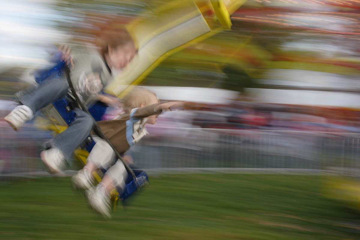 Blur created by a moving subject, moving camera, and a 1/13 second exposure.